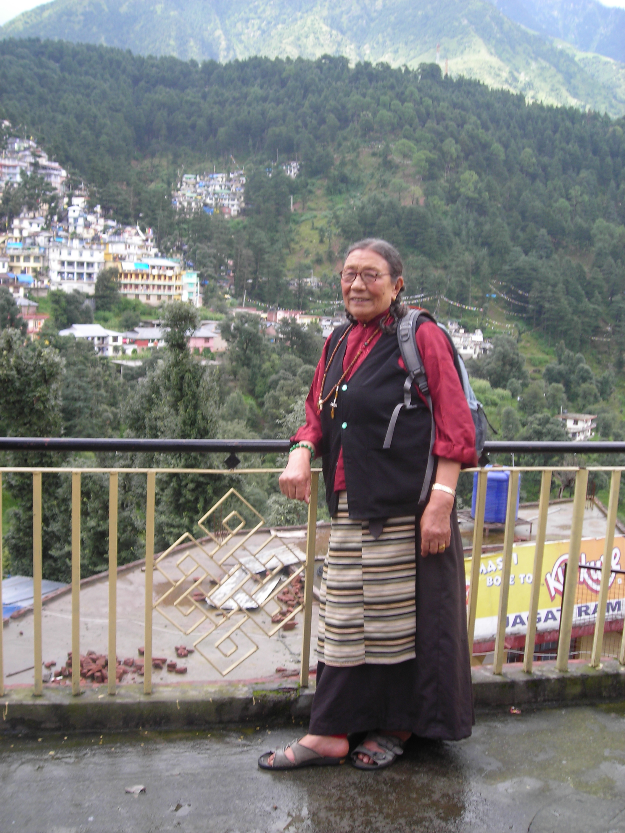 Ama Adhe at her current residence in Dharamsala